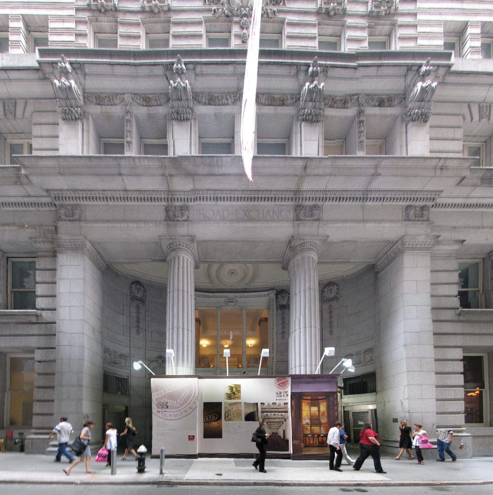 25 Broad Street. Clinton & Russell, 1902. Another Financial District landmarked converted into condos. This here's a side entrance. The composite makes it look as if this block is relatively pleasant and light-filled. Nope, it's all downtown canyon, though that doesn't mean it lacks charm. I say a little more about the building on my New York City landmarks blog. National Register Numbers Broad Exchange Building: 98000366 Wall Street Historic District: 07000063